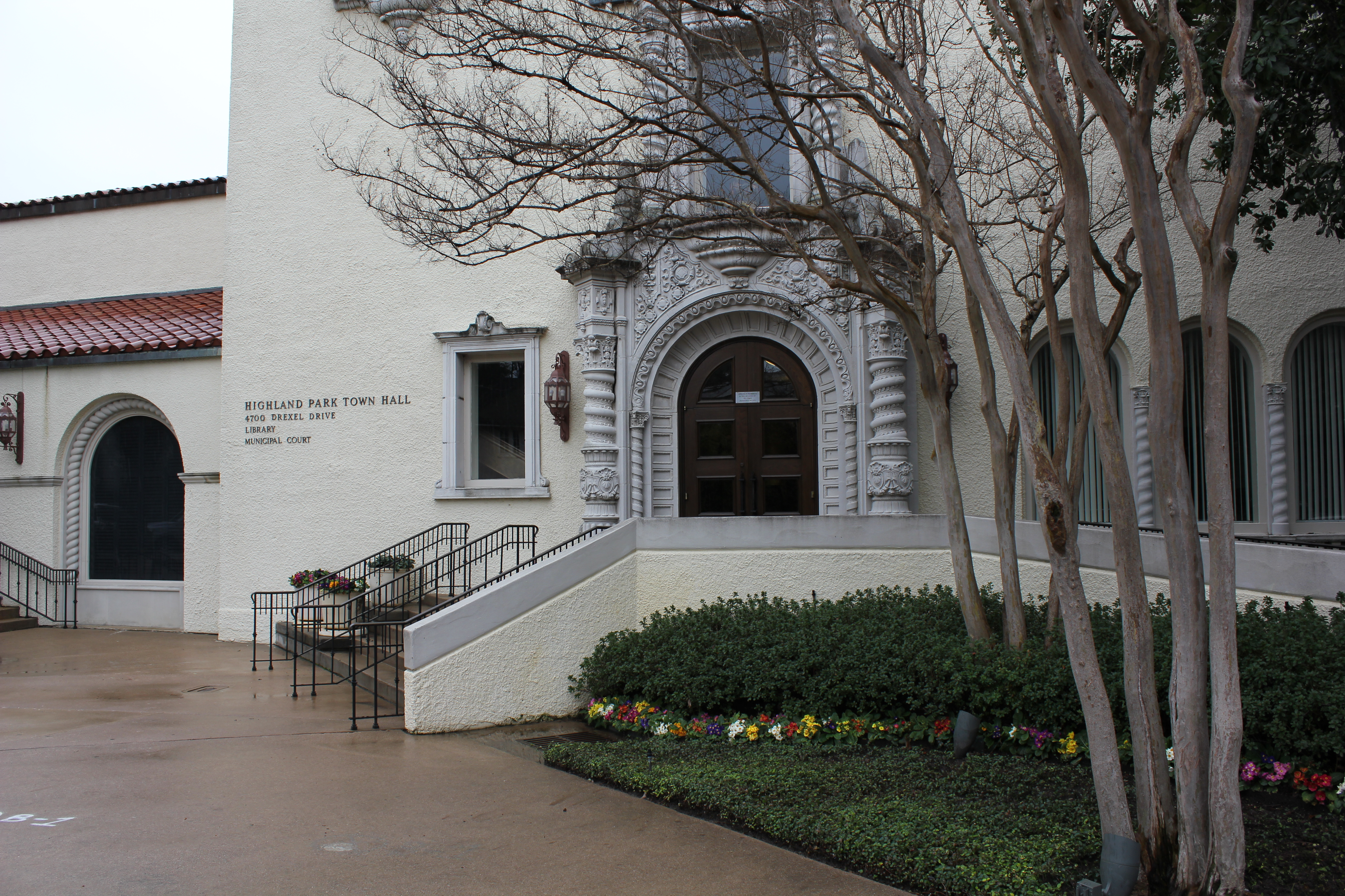 Entrance to Highland Park Municipal Building and Library.